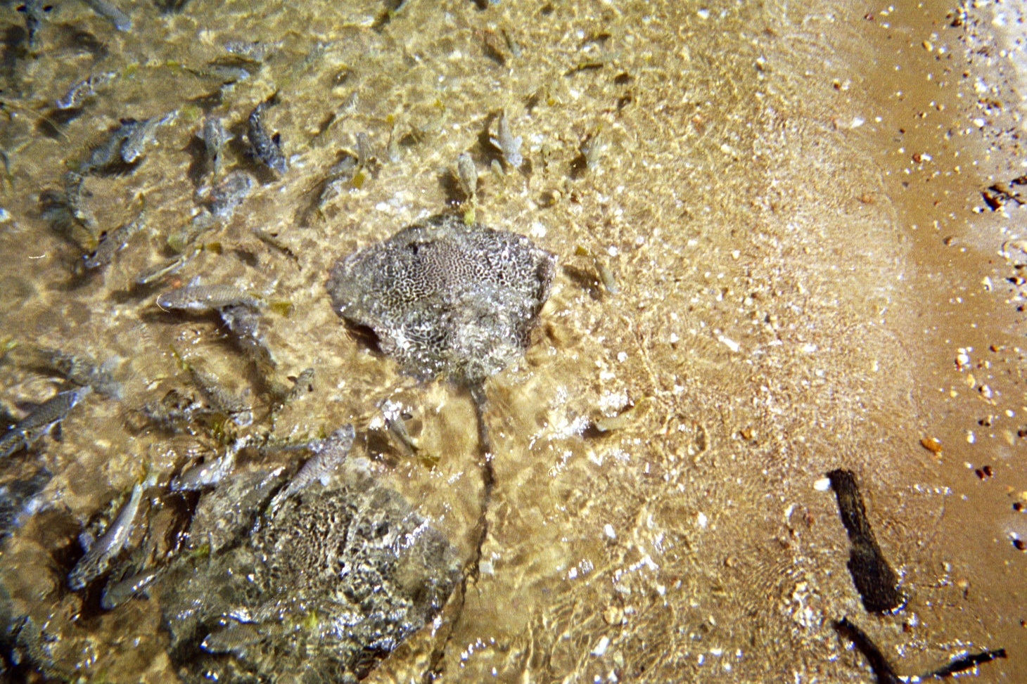 Reticulate whipray (Himantura uarnak) in Darwin